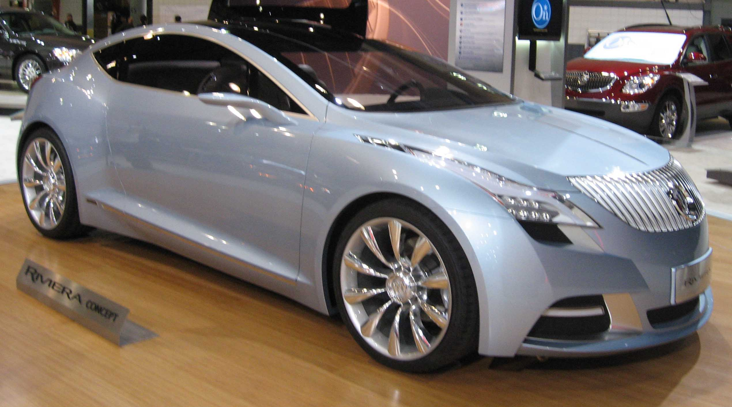 Buick Riviera concept photographed at the 2008 New York Auto Show.